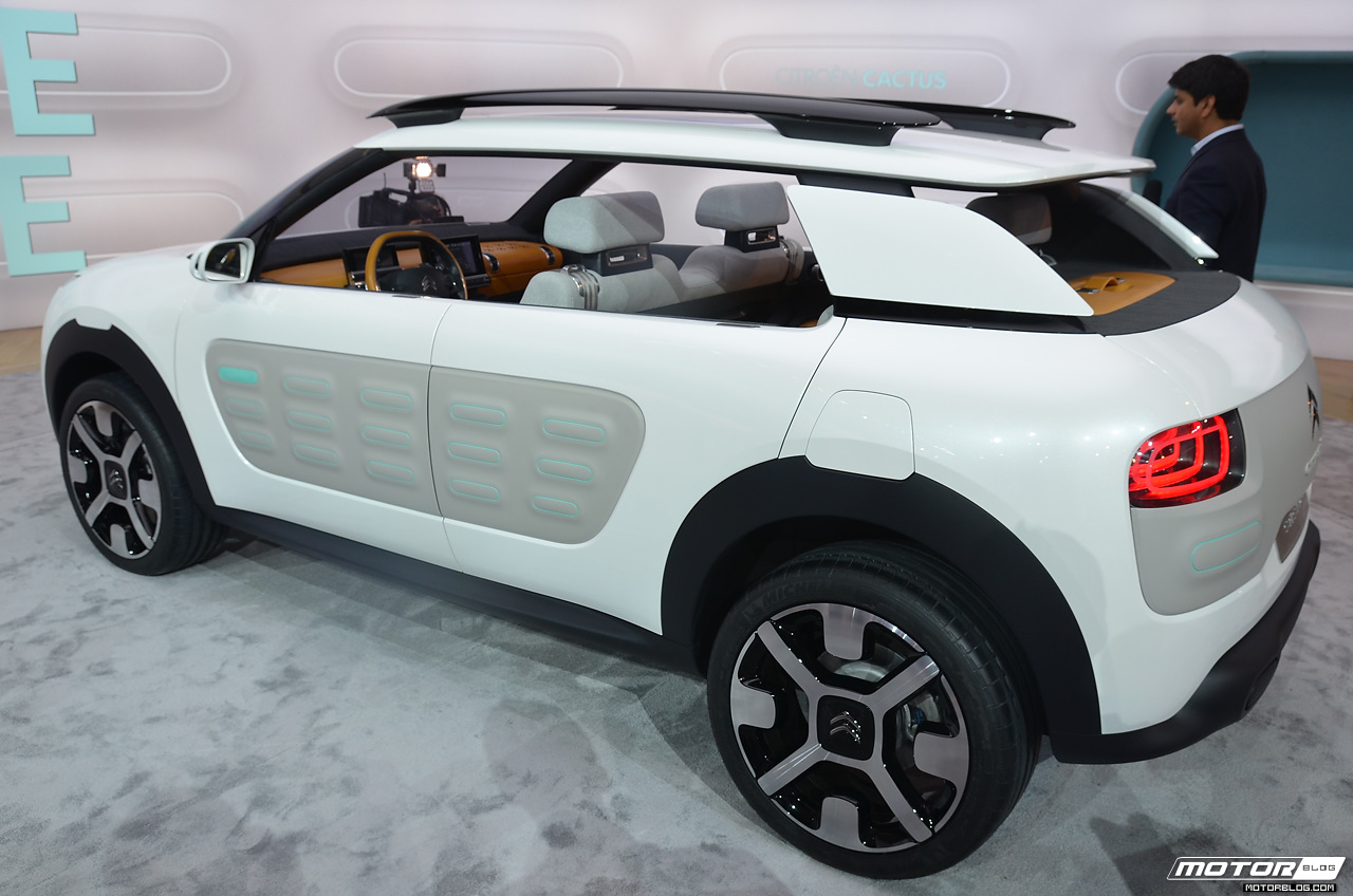 IAA Frankfurt 2013: Citroen Cactus / Photo: Raphael Jahn ______________________ Please feel free to use this image for FREE under the Creative Commons (CC) licence. However, if you use the image, pls set a backlink to and give credit as following: "Image: ". For highres images or any other inquiries pls contact mailto: . Thanks.